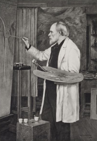 Photogravure (1900) by Frederick Hollyer of a portrait of Edward Burne-Jones by his son, Philip Burne-Jones, 1898